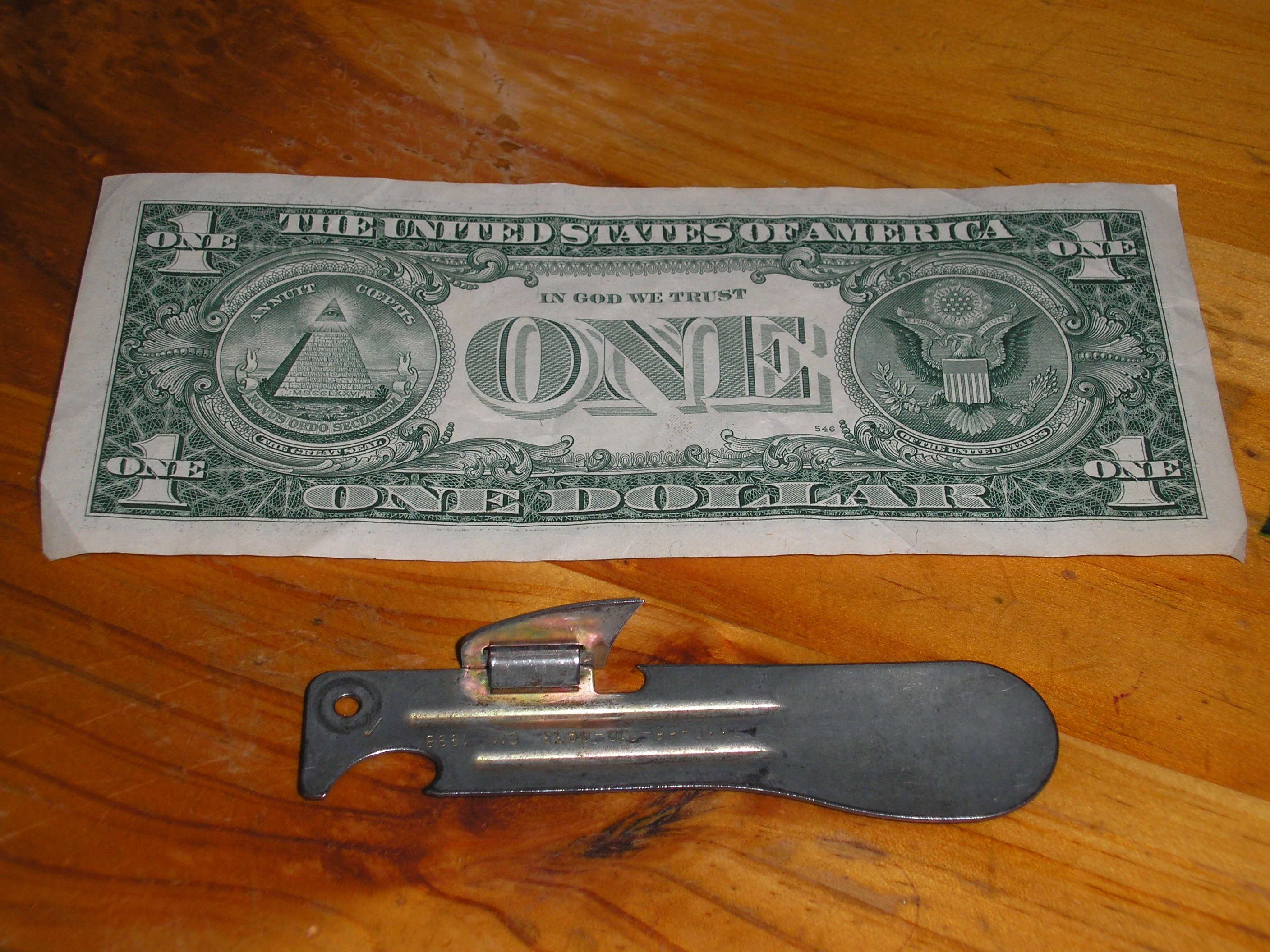 Australian Army "FRED"Numbers on metal read "7330-88-010-0633 CMI 1998"Picture taken 29 March 2007 by User:One Salient Oversight